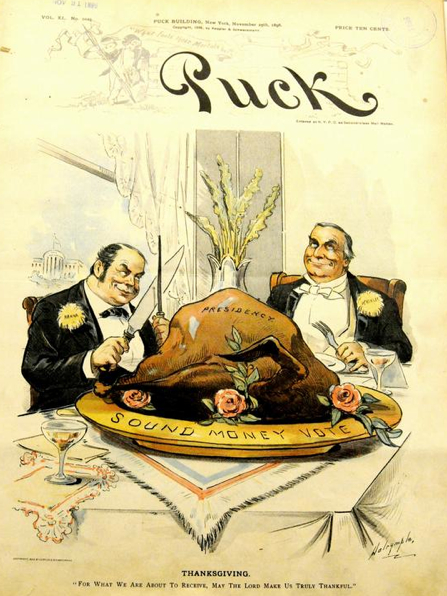 1896 editorial cartoons shows William McKinley and Mark Hanna about to carve up the presidency at Thanksgiving.